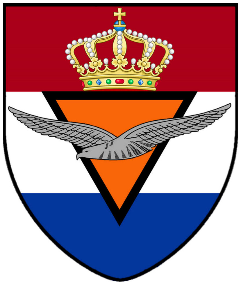 ML-KNIL Shield Coat of Arms 1945